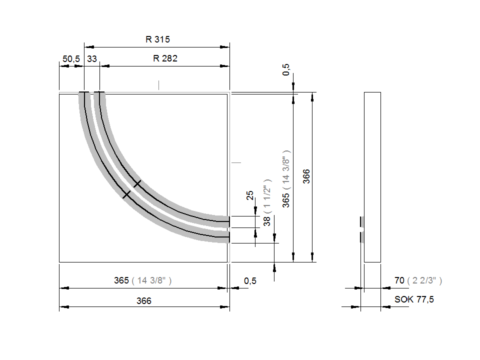 Drawing of en courved T-Trak module for N gauge.